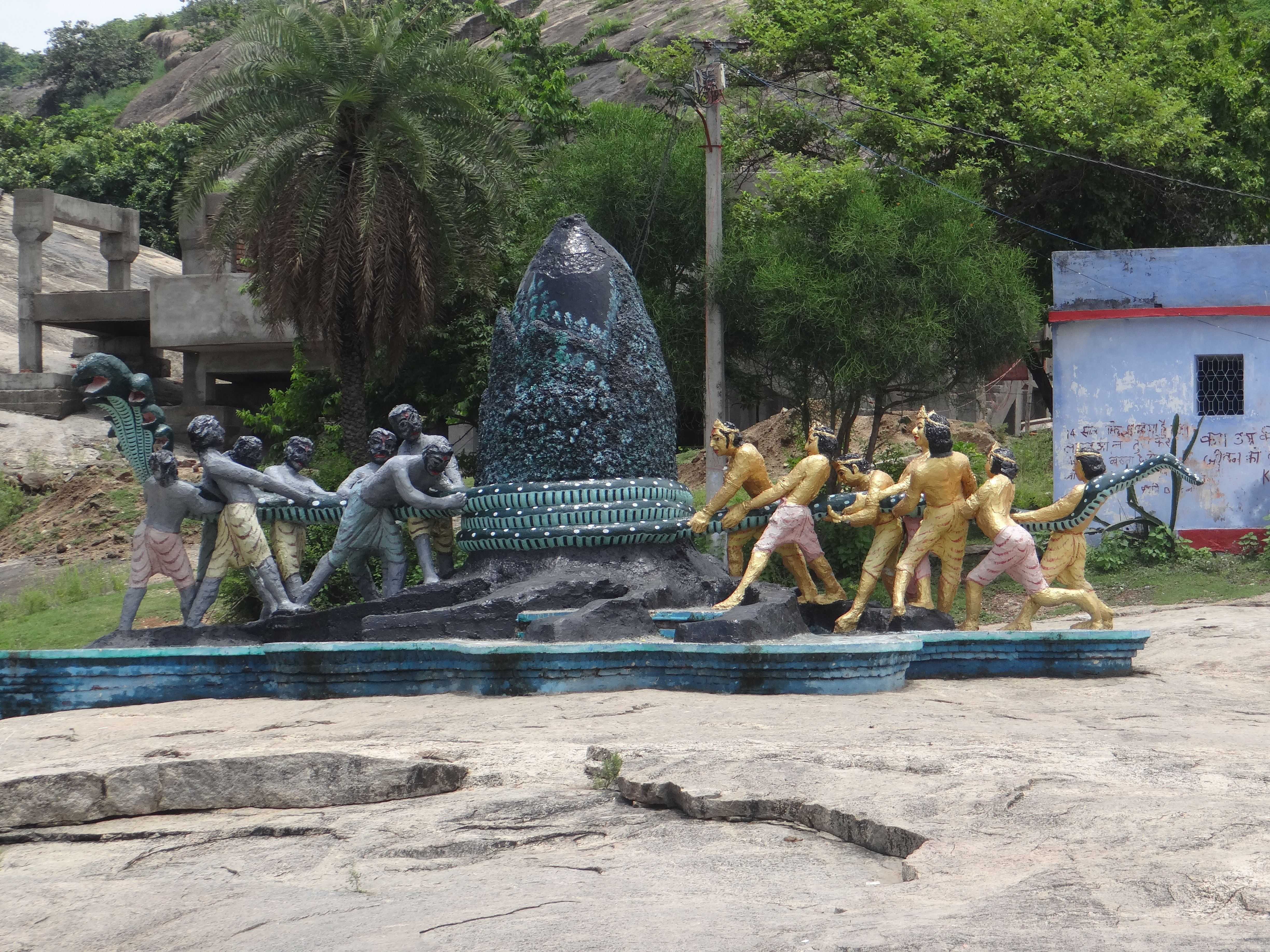 Mandar Parvat or Hill or Mount, Bhagalpur